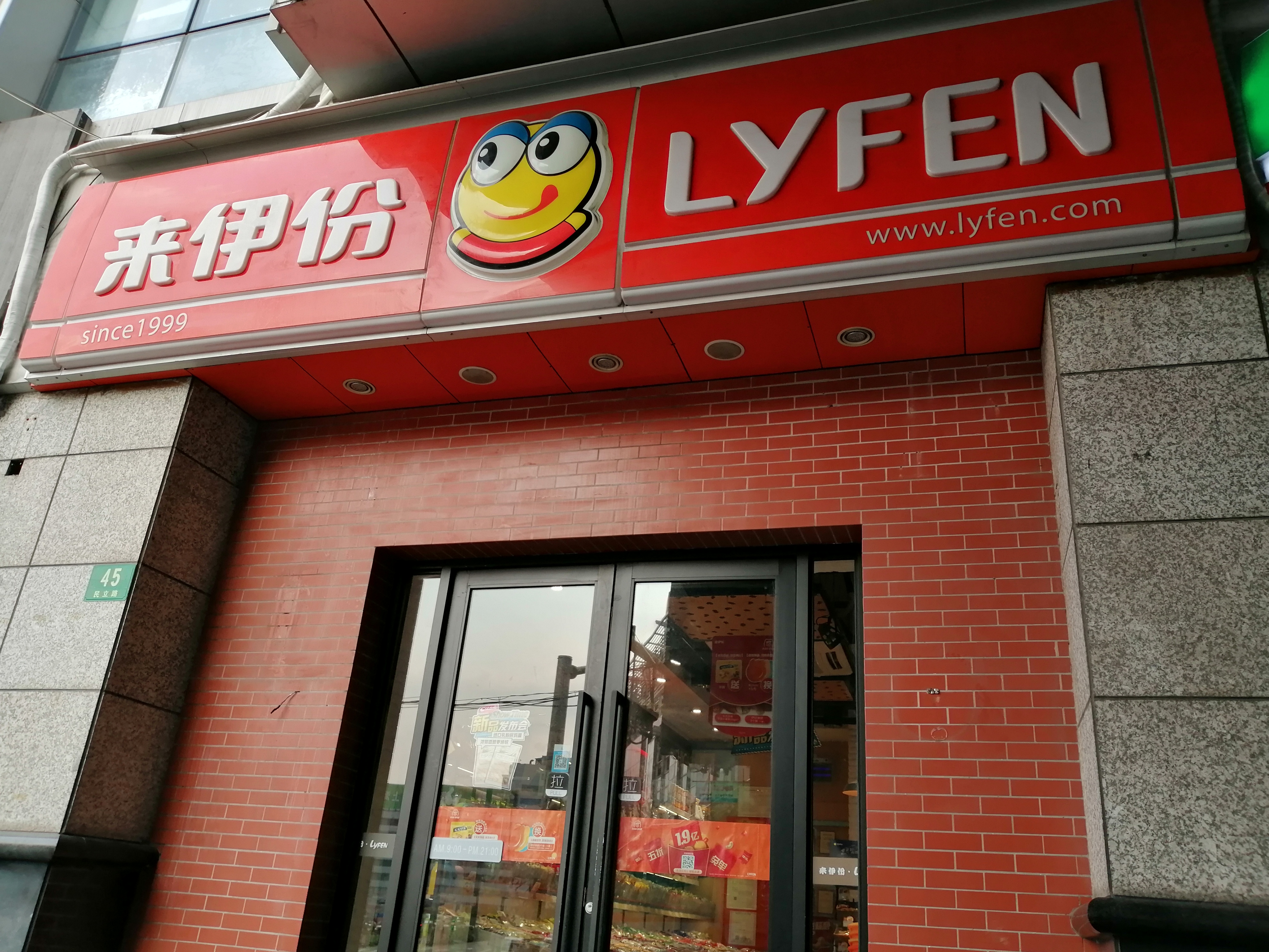 Lyfen Store at Huanlong Department Store, near south square of Shanghai Railway Station 中文（中国大陆）: 上海火车站南广场附近的环龙商场的来伊份门店